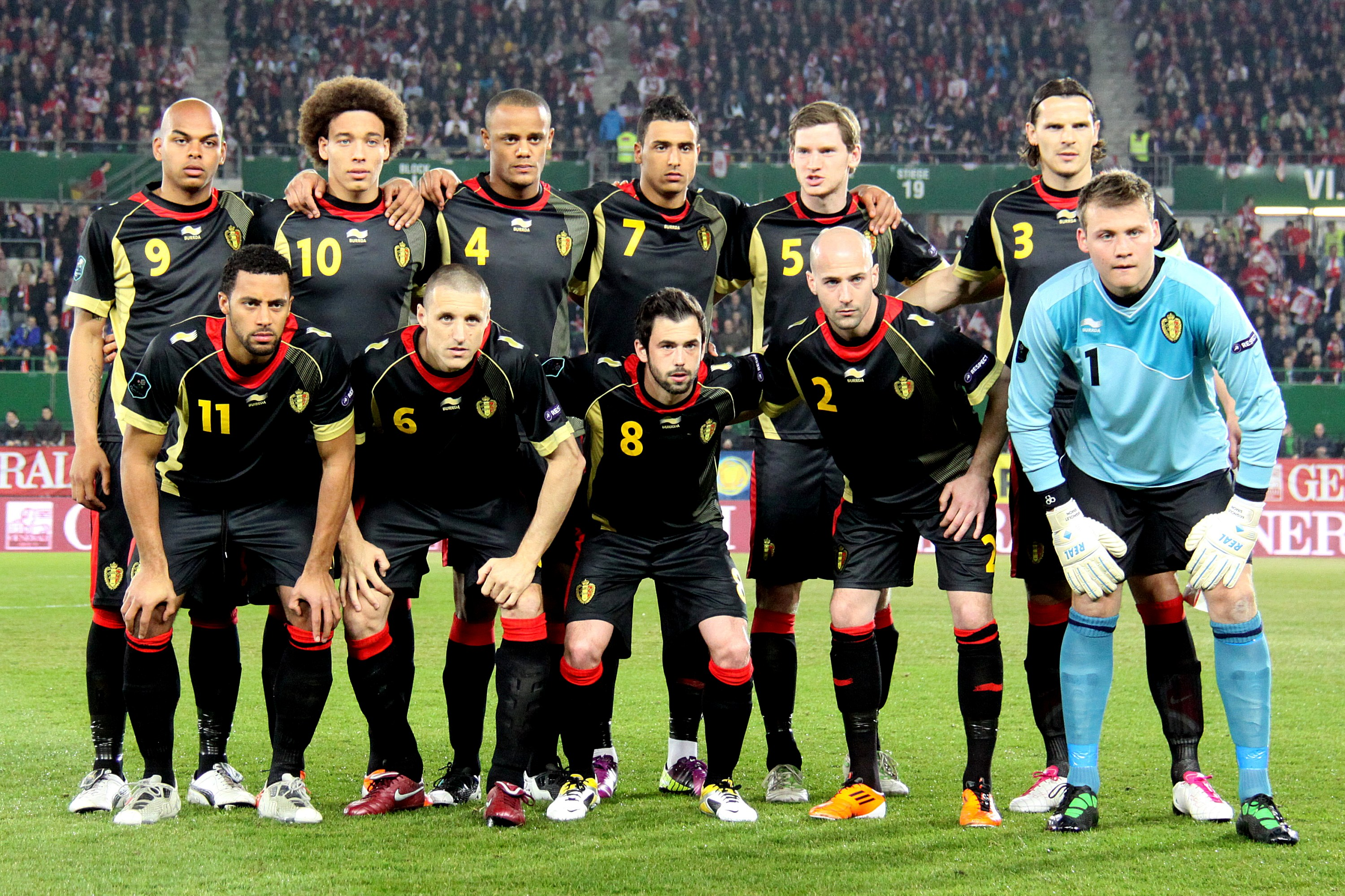 Belgium against the Austrian national football team (0:2), 2011-03-25 in Vienna (Ernst-Happel-Stadion